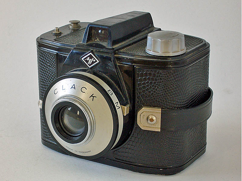 Agfa Clack Box